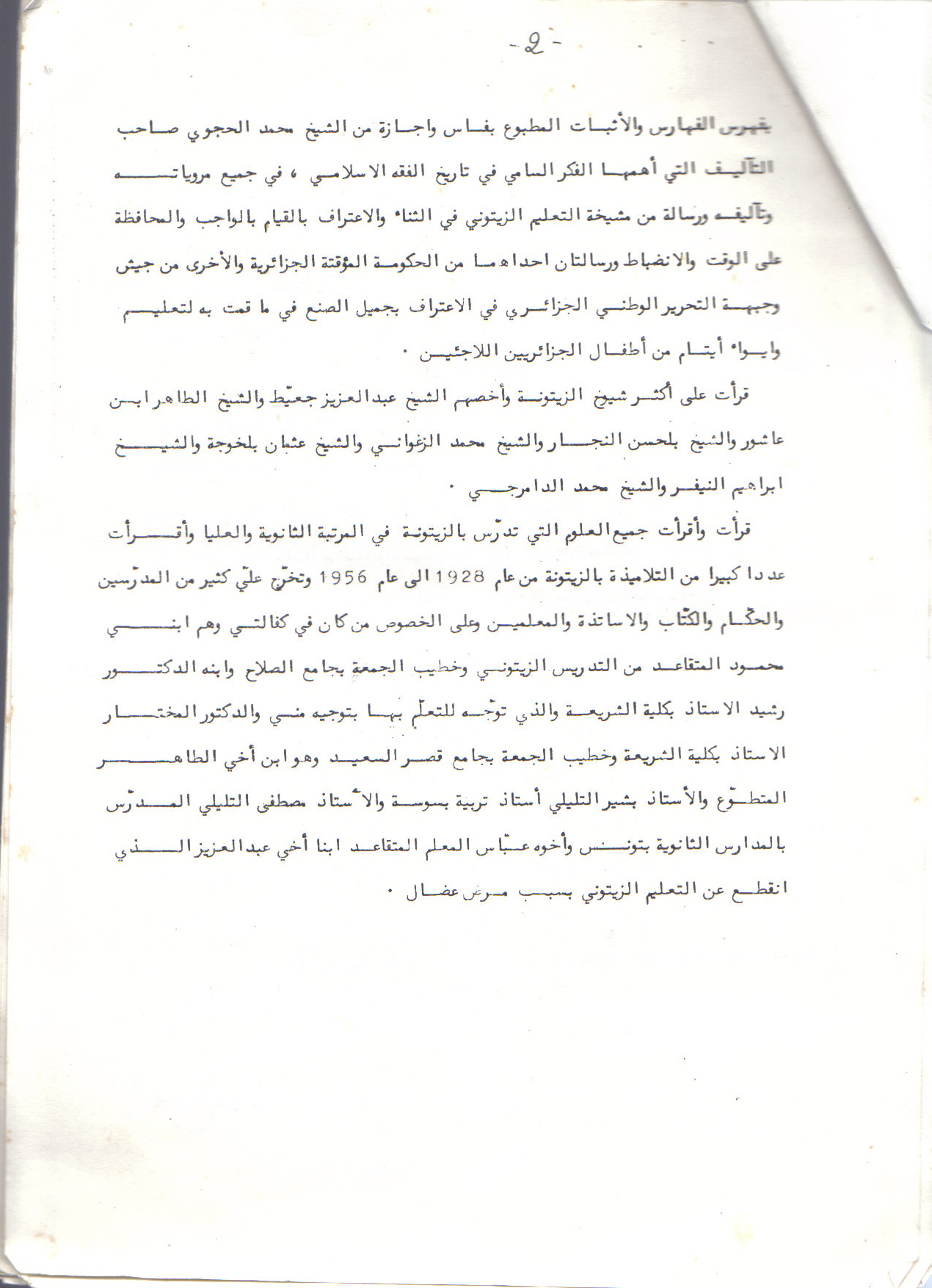 السيرة الذاتية للشيخ الطيب التليلي، ص 2